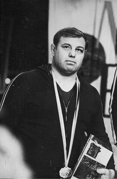 Osman DuralievTürkçe: Osman Durali